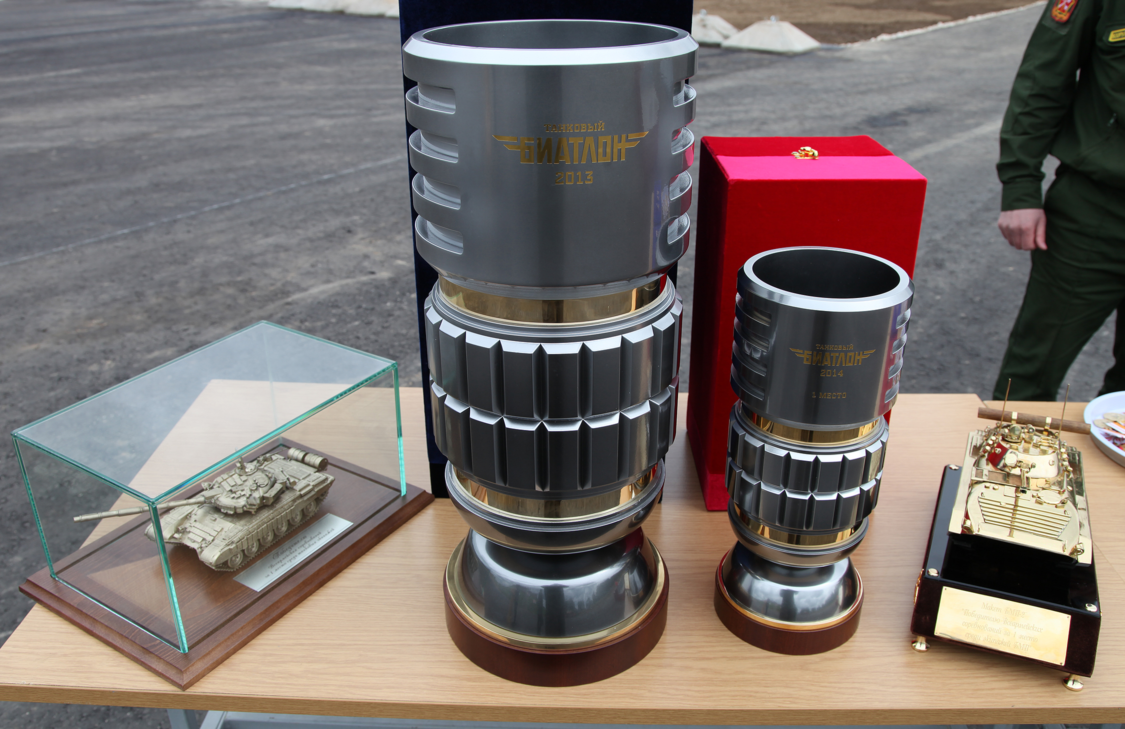 Medals and cups for the winners of russian finals